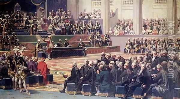 Oil painting "Opening of the Estates General at Versailles on 5th May 1789"; painted in 1839 by Louis Charles Auguste Couder